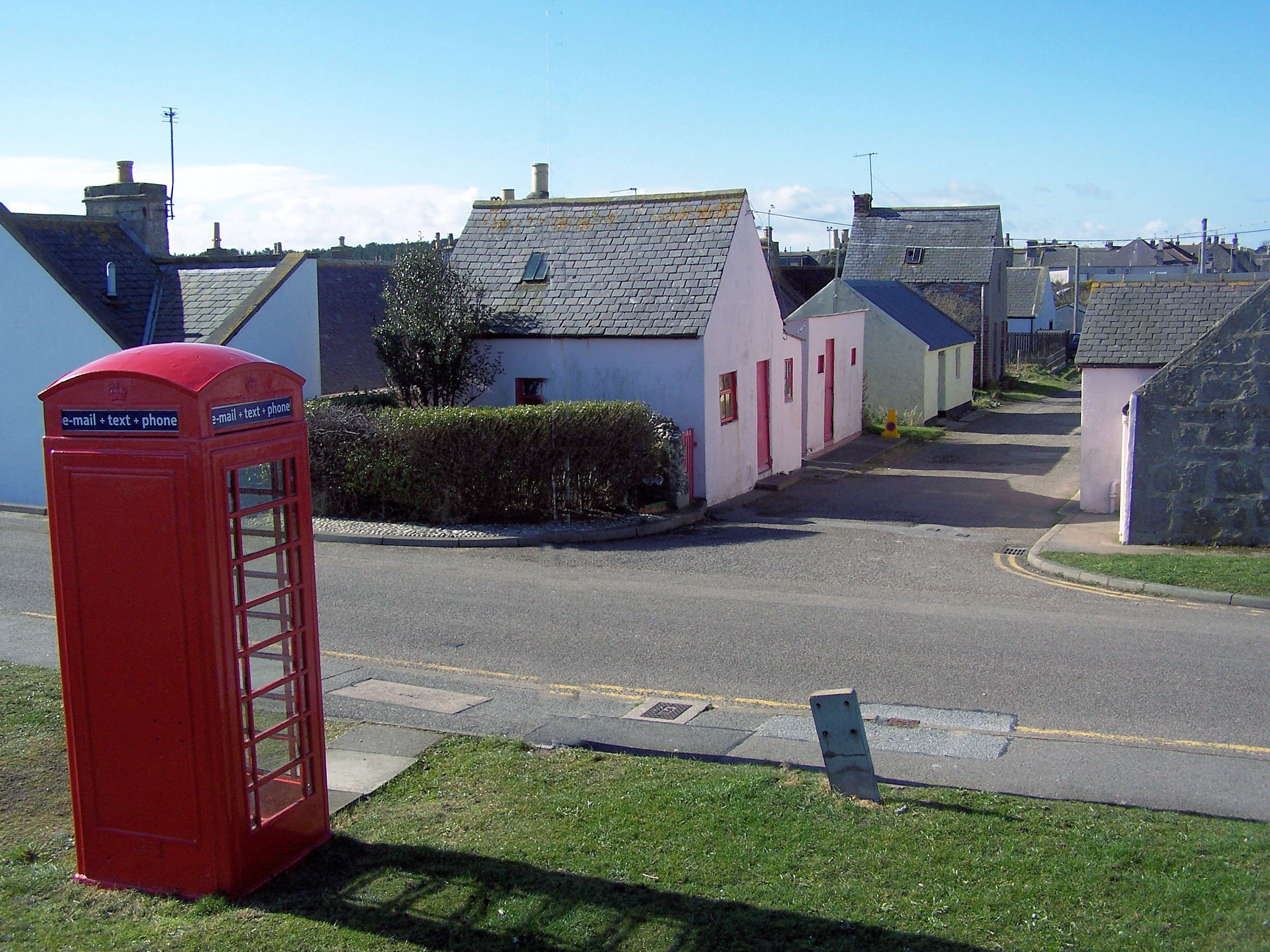 Phone box at Seatown. Lossiemouth, Moray, Scotland